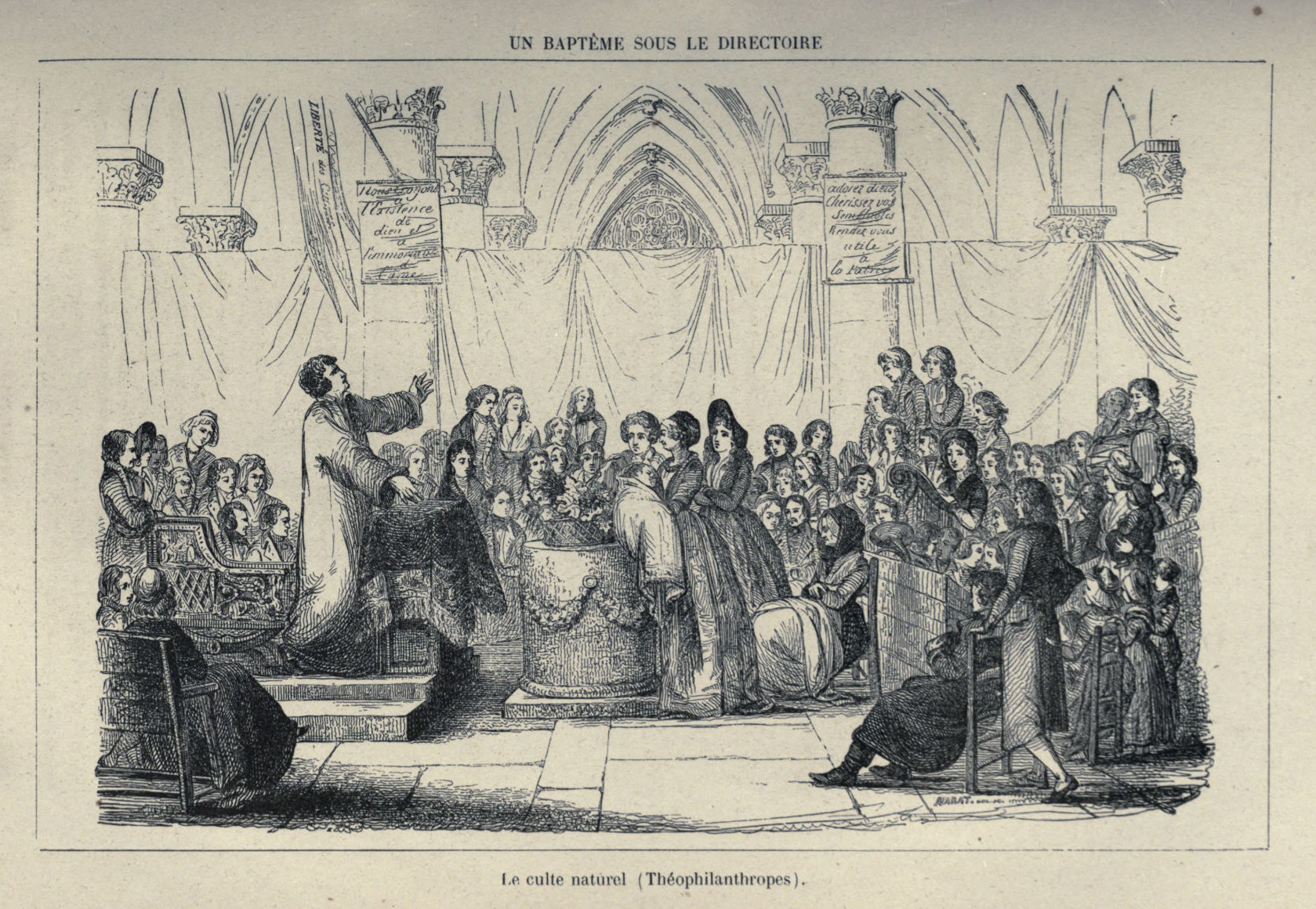 Theophilanthropes, during the French Revolution.